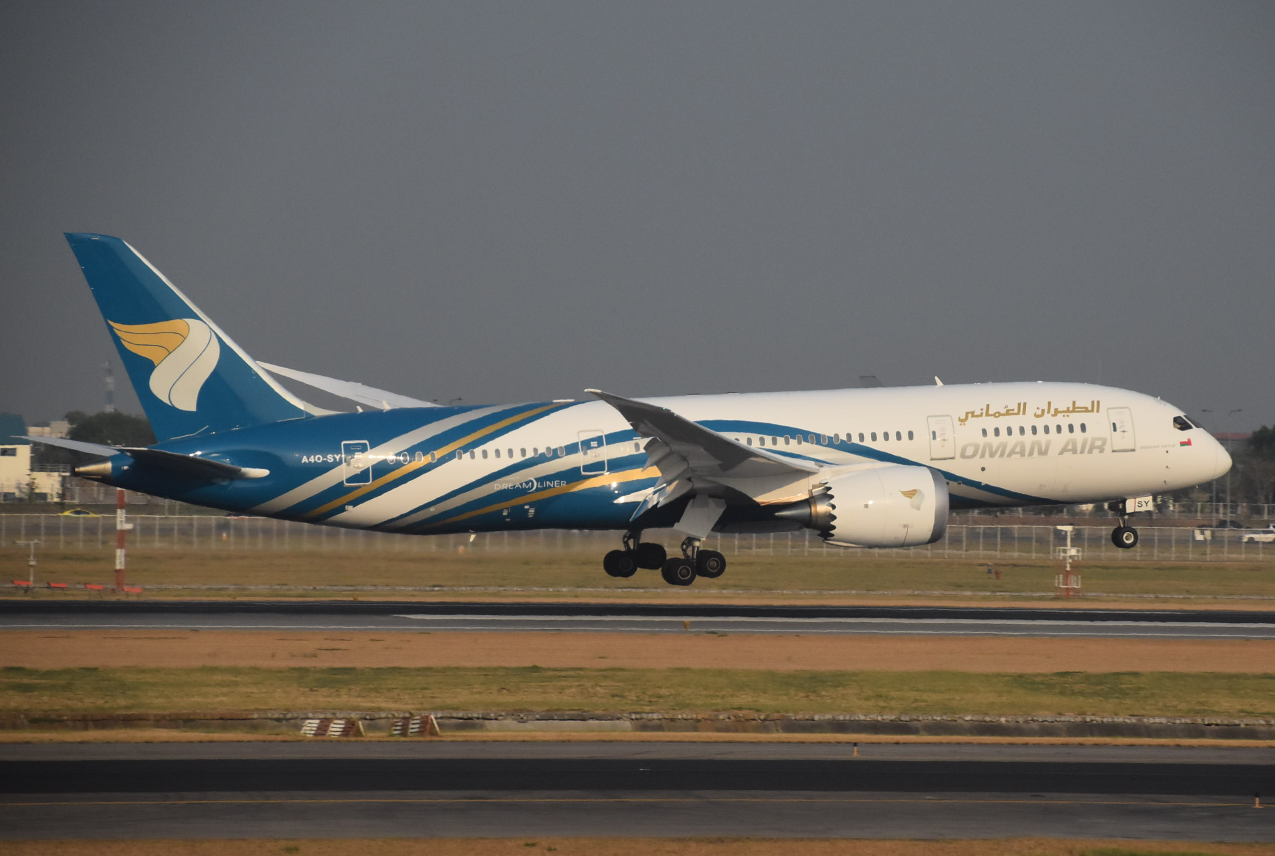 Boeing 787/8 of Oman Air about to touch down on rwy.19L at Bangkok-BKK, Thailand,27/04/16.